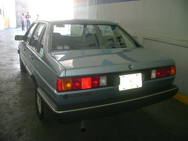 A mexican 1986 Volkswagen Corsar CD in Silver Blue metallic. Rear view